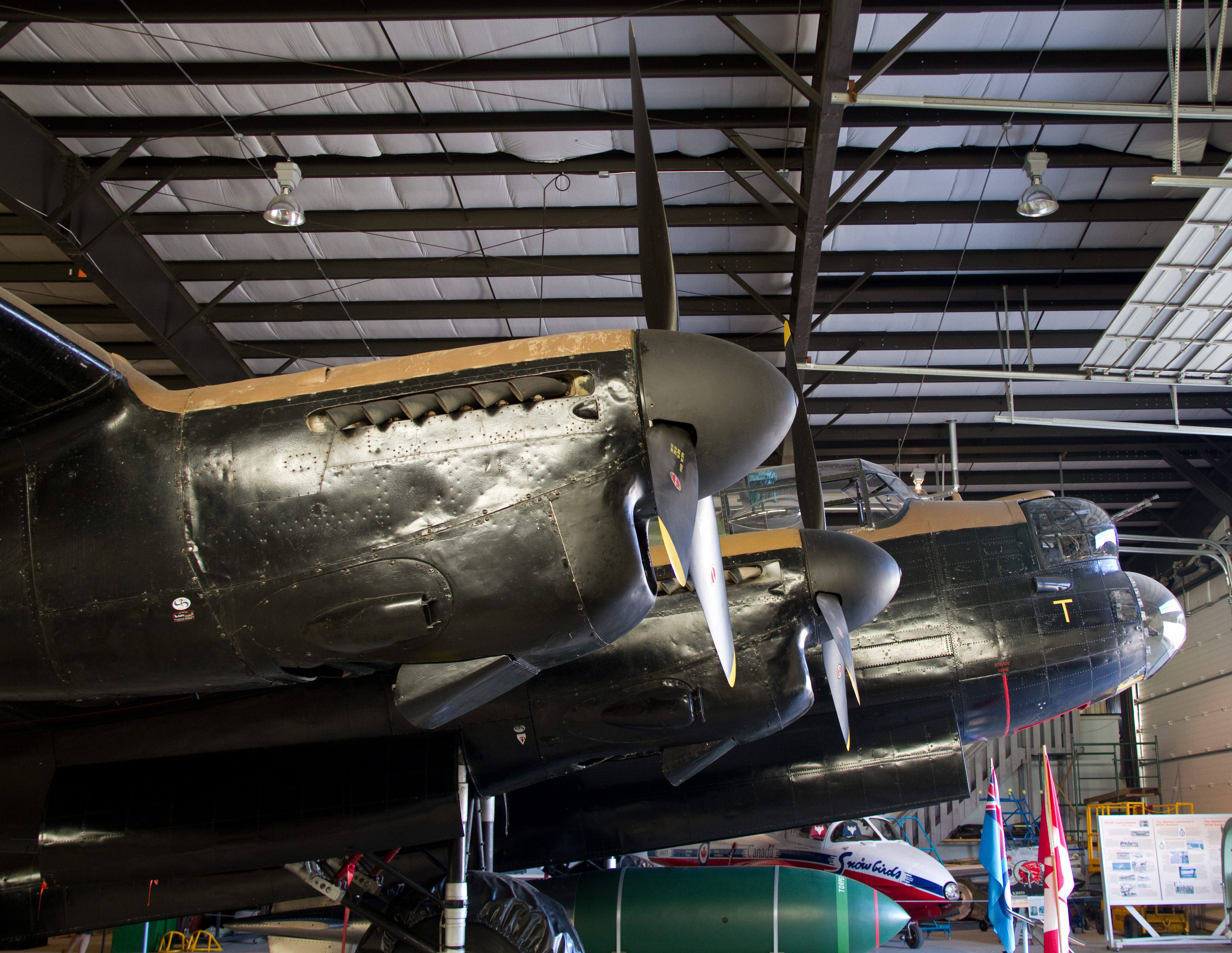 Avro Lancaster B X FM159, the Nanton, Alberta, Bomber Command Museum of Canada.